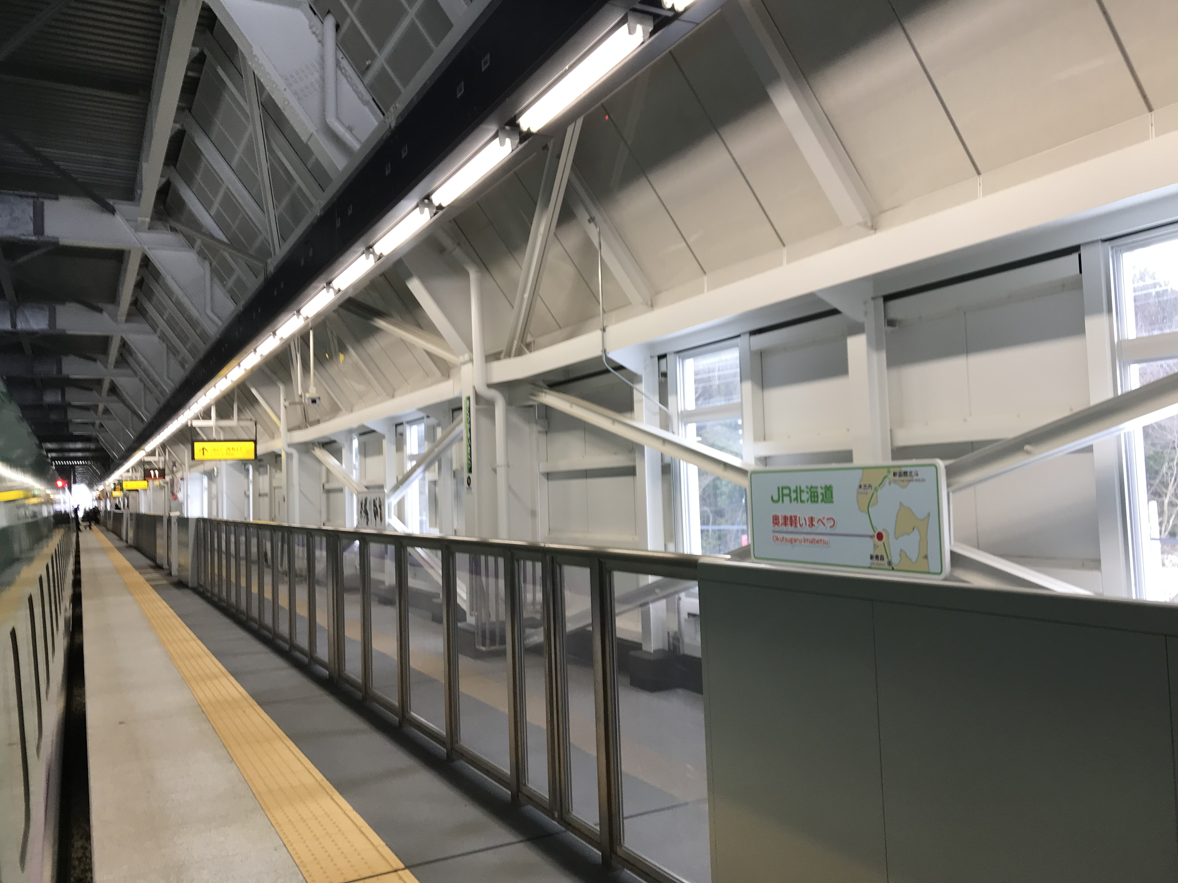 The Tokyo-bound shinkansen platform at Okutsugaru-Imabetsu Station in Aomori Prefecture, Japan